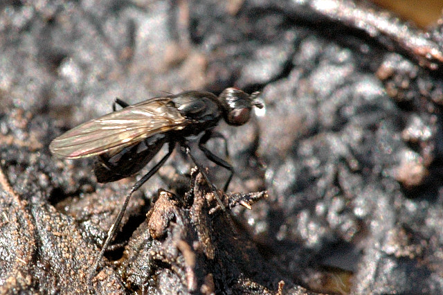 Picture taken in Commanster, Belgian High Ardennes . Species: Themira putris